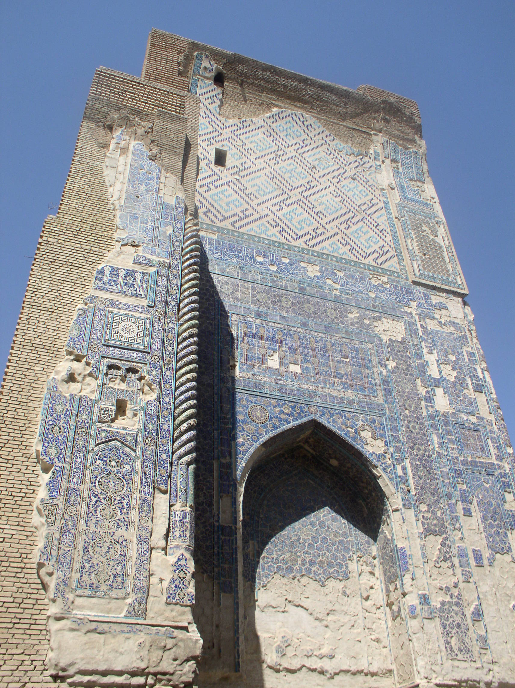 remains of decorations of the Aq-Saray palace in Shahrisabz